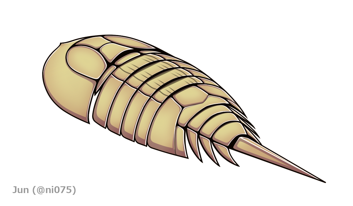 Reconstruction of Cyamocephalus loganensis, a silurian synziphosurine (Chelicerate, Euchelicerate).